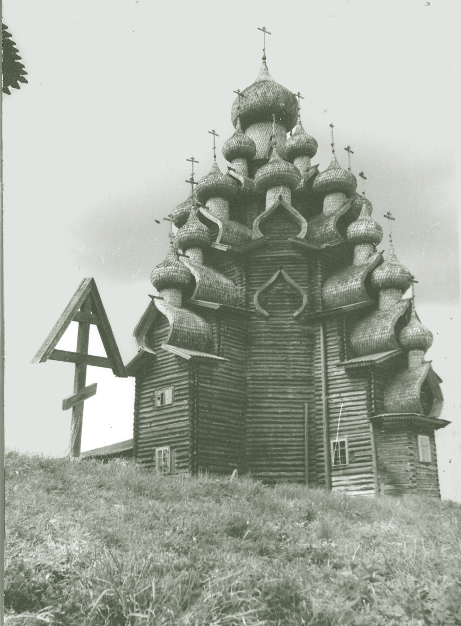 Kizhi.Transfiguration_Church.jpg Vitold Muratov 1970